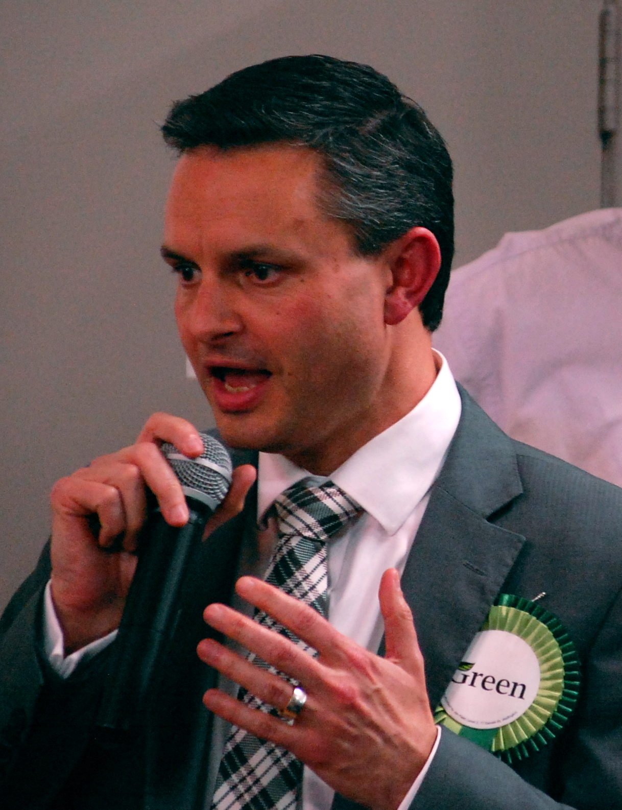 Crop of James Shaw speaking at the 2014 Aro Valley candidates meeting